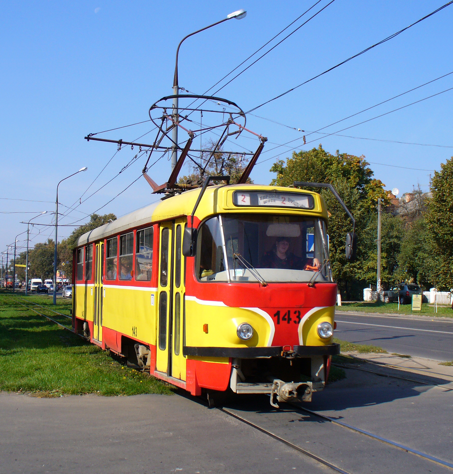 Old tram T4 produced by ČKD Tatra. Ukraine, Vinnitsa.